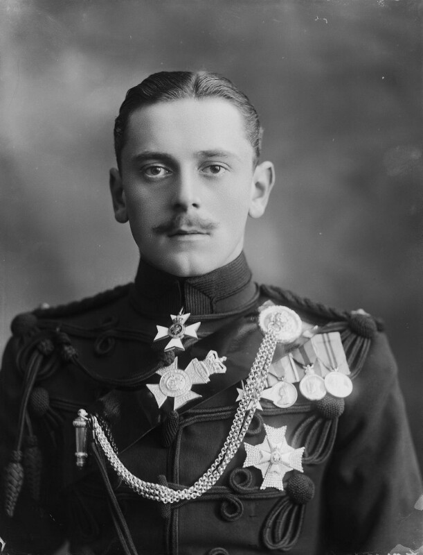 Prince Maurice Victor Donald of Battenberg (1891-1914), Soldier; grandson of Queen Victoria; son of Prince Henry of Battenberg.